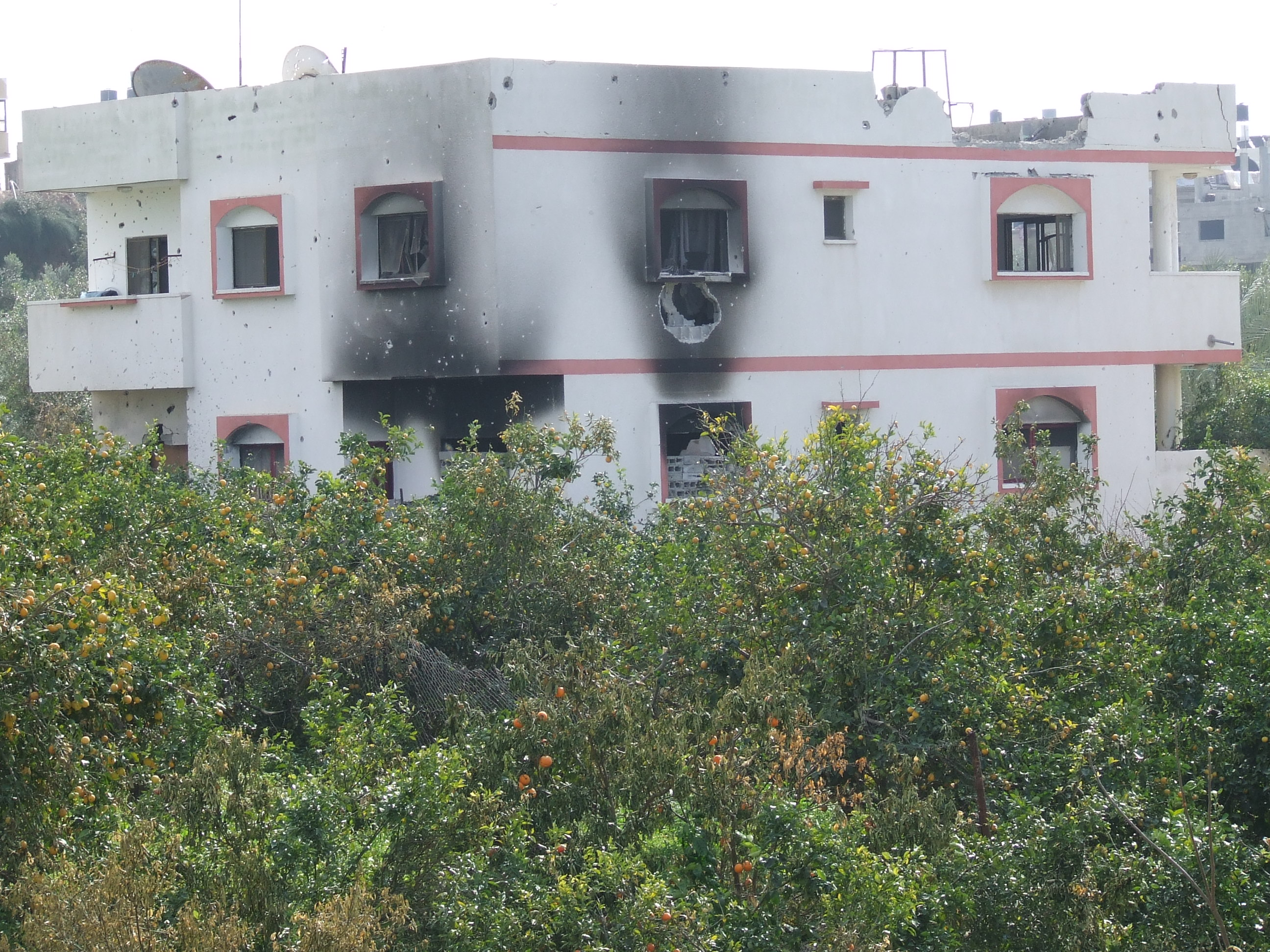 house on fire in gaza